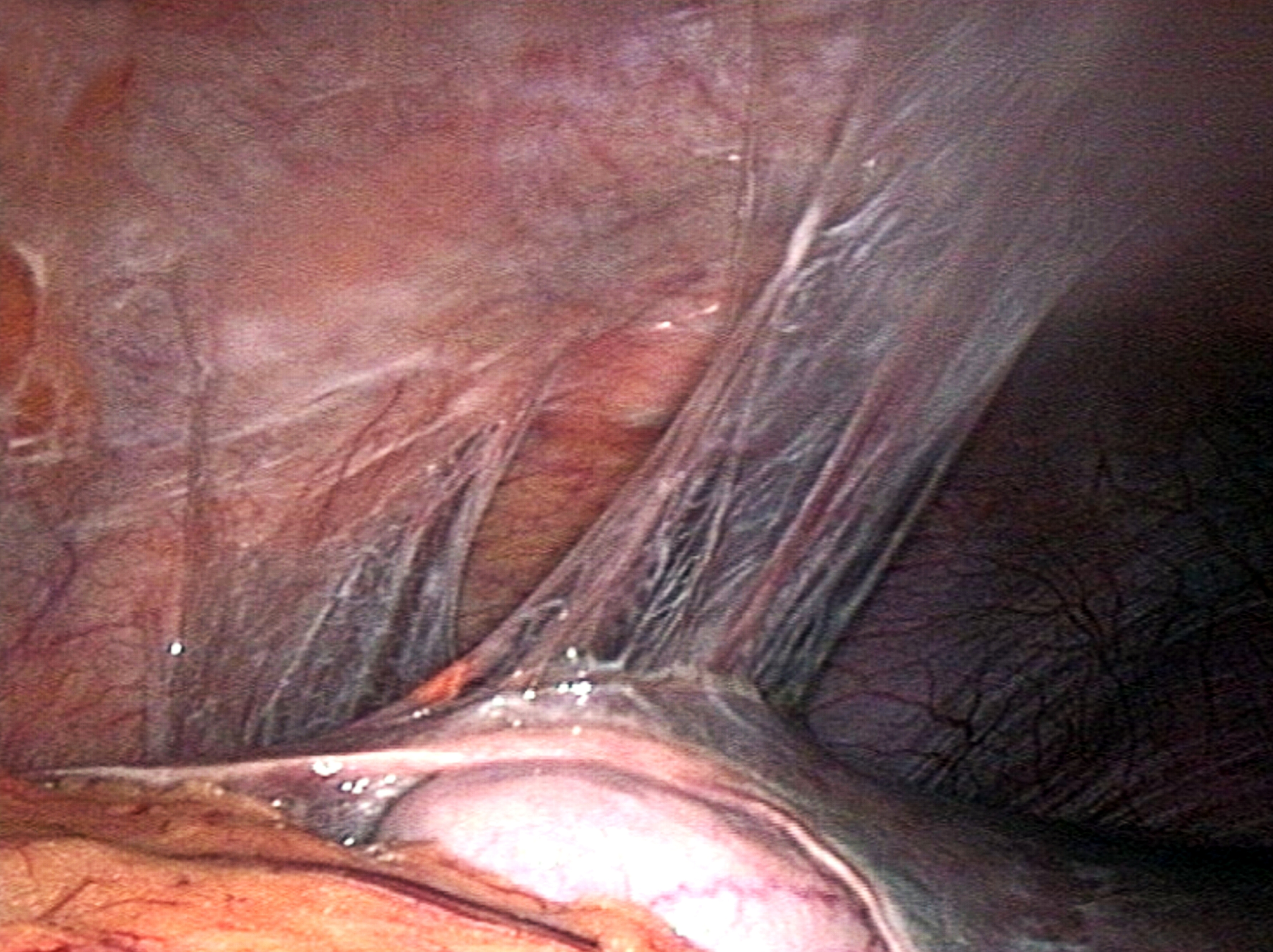 perihepatic adhesions following a chlamydia infection